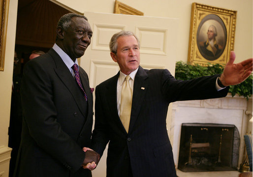 President George W. Bush welcomes Ghana President John Kufuor to the Oval Office at the White House, Wednesday, April 12, 2006, where President Bush complimented President Kufuor as a man of vision, strength and character in his leadership of Ghana.